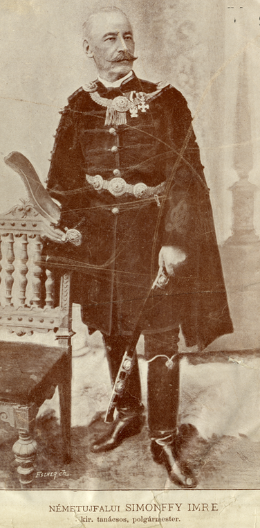 Portrait of Simonffy Imre